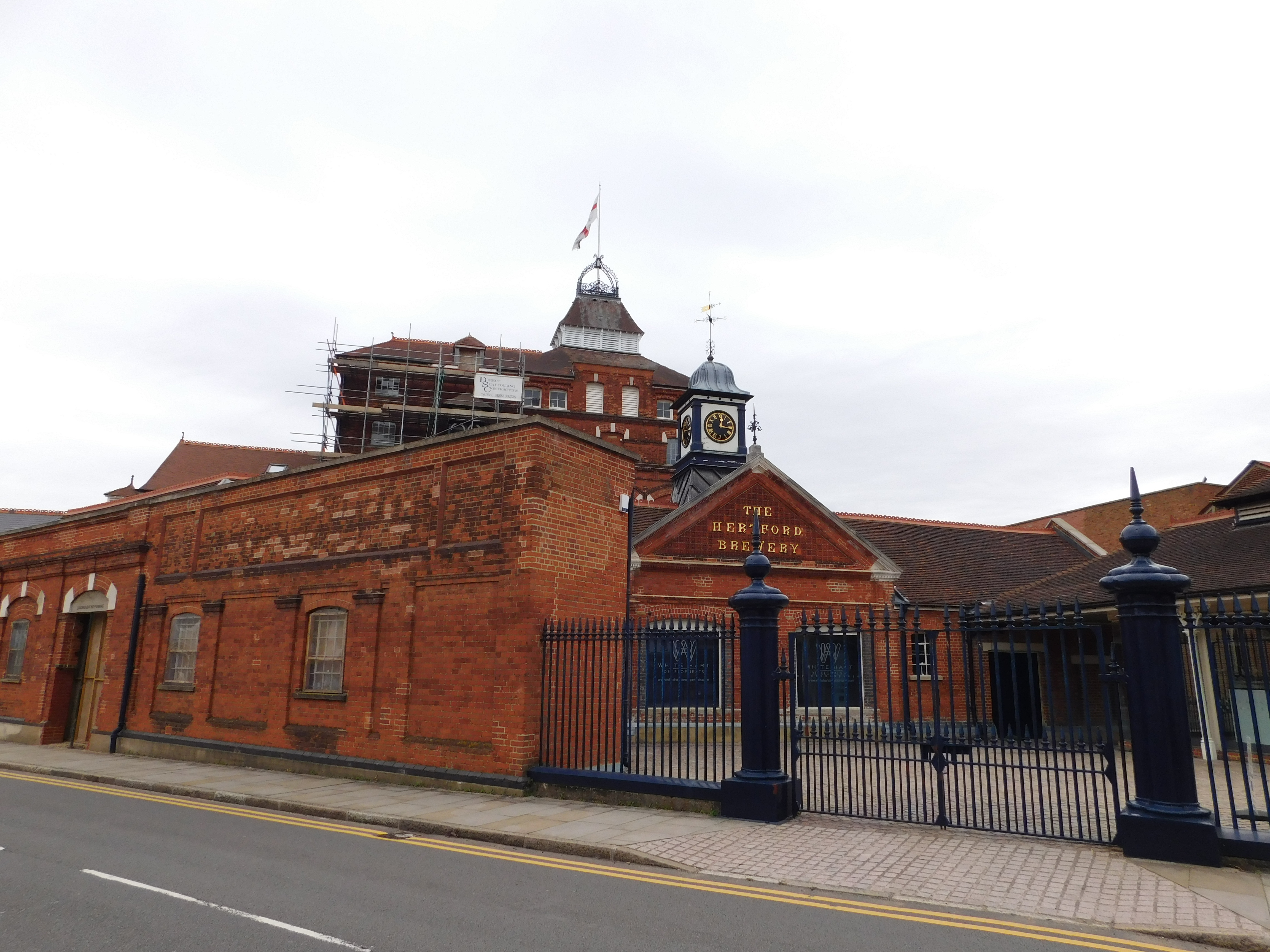 Mcmullens Brewery Wikidata has entry Q26559158 with data related to this item.